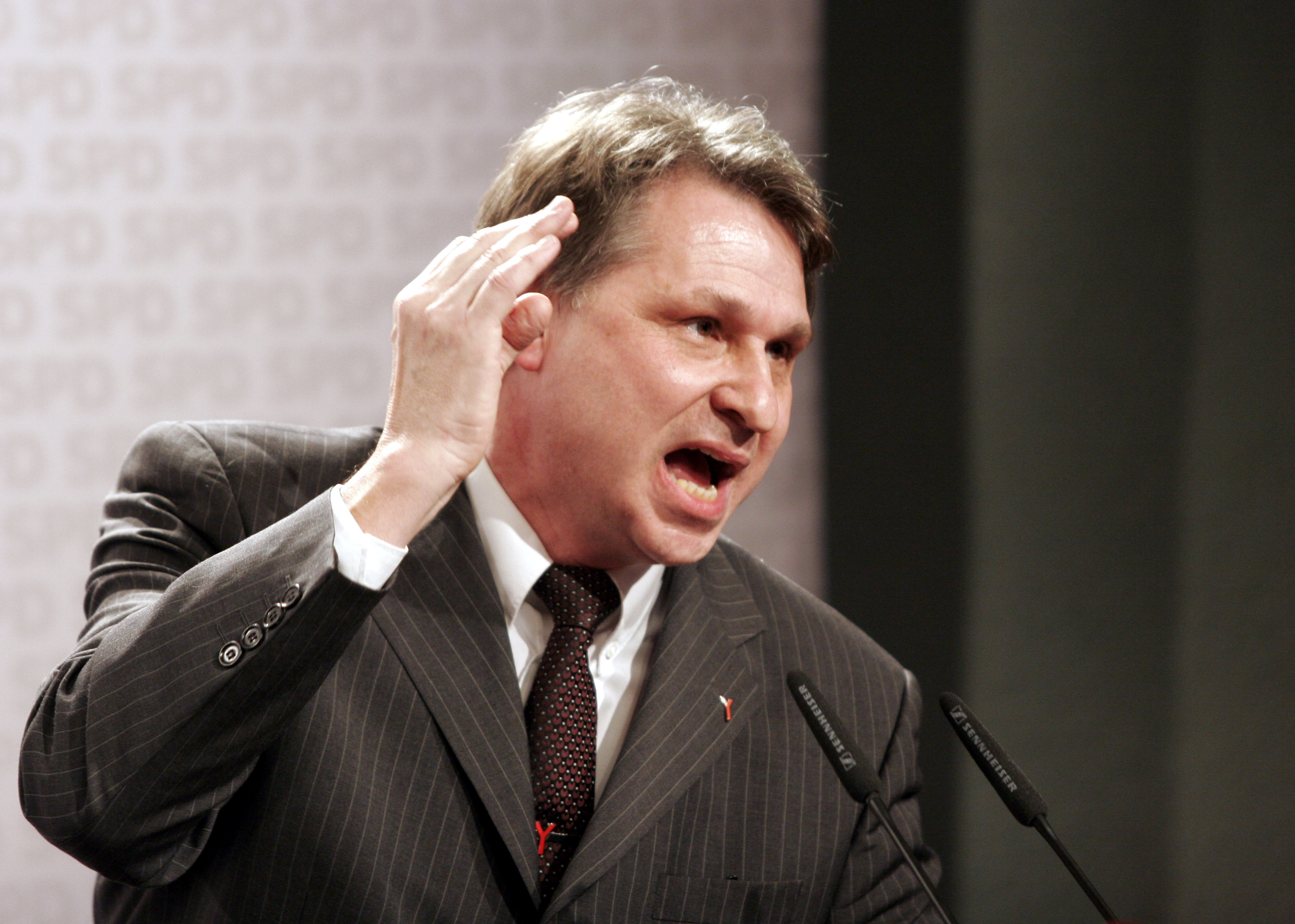 Norbert Schmitt, Member of the Parliament of Hesse (Germany), during an election campaign in Bensheim (Hesse, Germany)